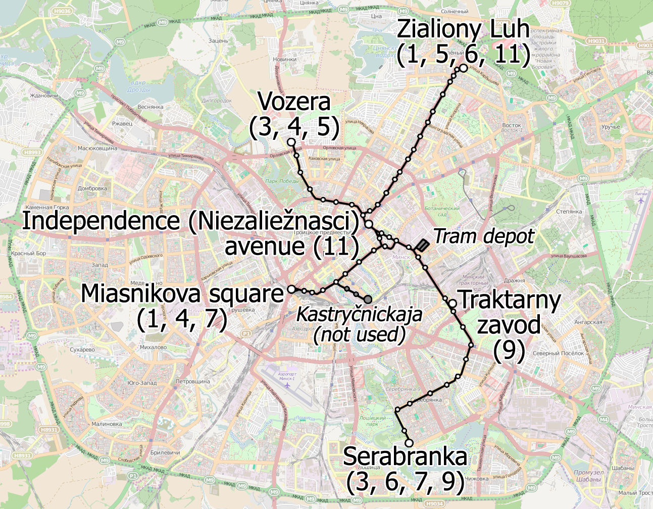 Tram map of Minsk (Belarus), November 2018 This map may be incomplete, and may contain errors. Don't rely solely on it for navigation.